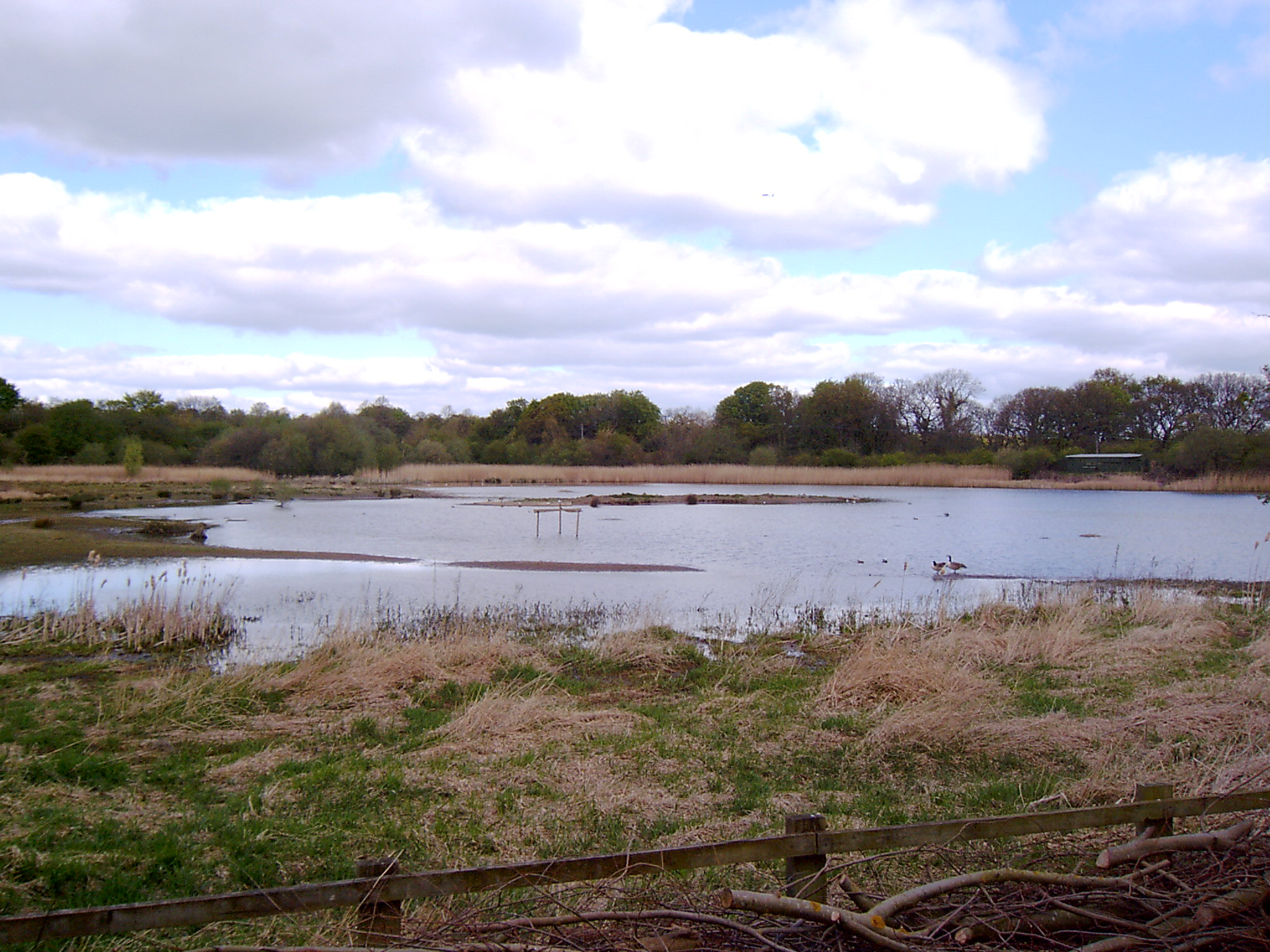 Haydn's Pool in Anderton Nature Park, Cheshire, England.